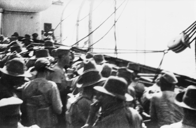 Troops from the Australian 21st Battalion prepare to abandon ship following the torpedoing of the Southland by a German submarine in September 1915.